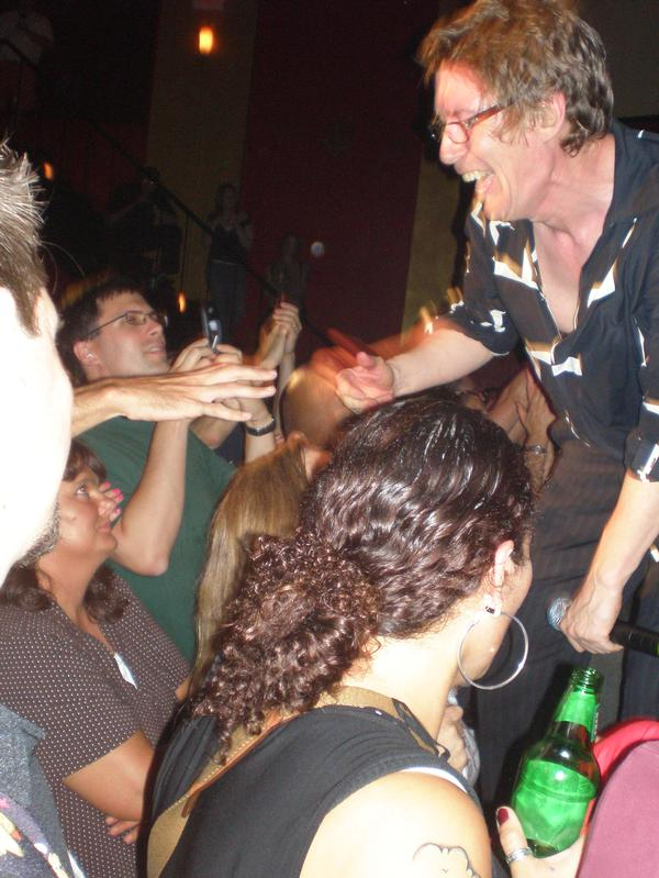 Richard Butler of the Psychedelic Furs, live in Indianapolis, Indiana, October 2007.